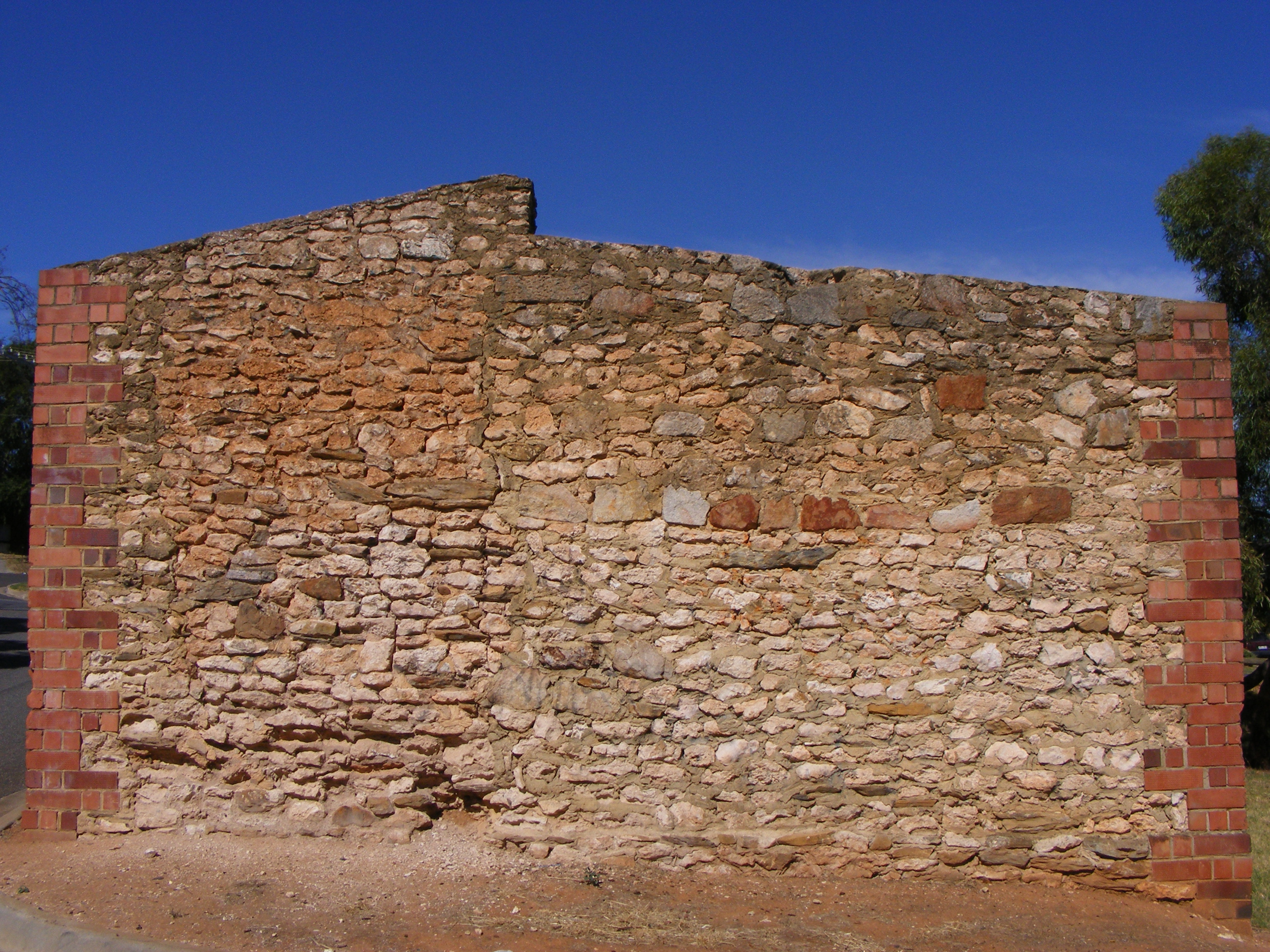 Wall at the end of a farm outbuilding. Preserved in Para Vista, Adelaide, South Australia. Wall is built with limestone rubble mostly, ploughed up from the fields surrounding, with red-brick quoins.